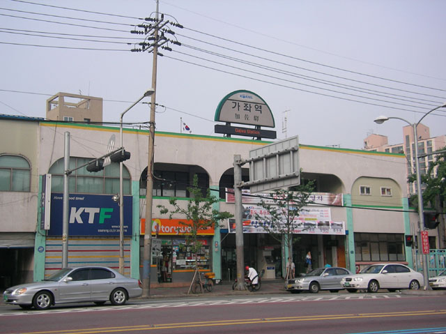 Gajwa Station